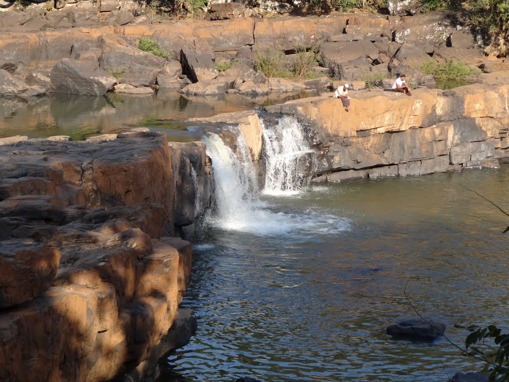 They are loacted at Ajra